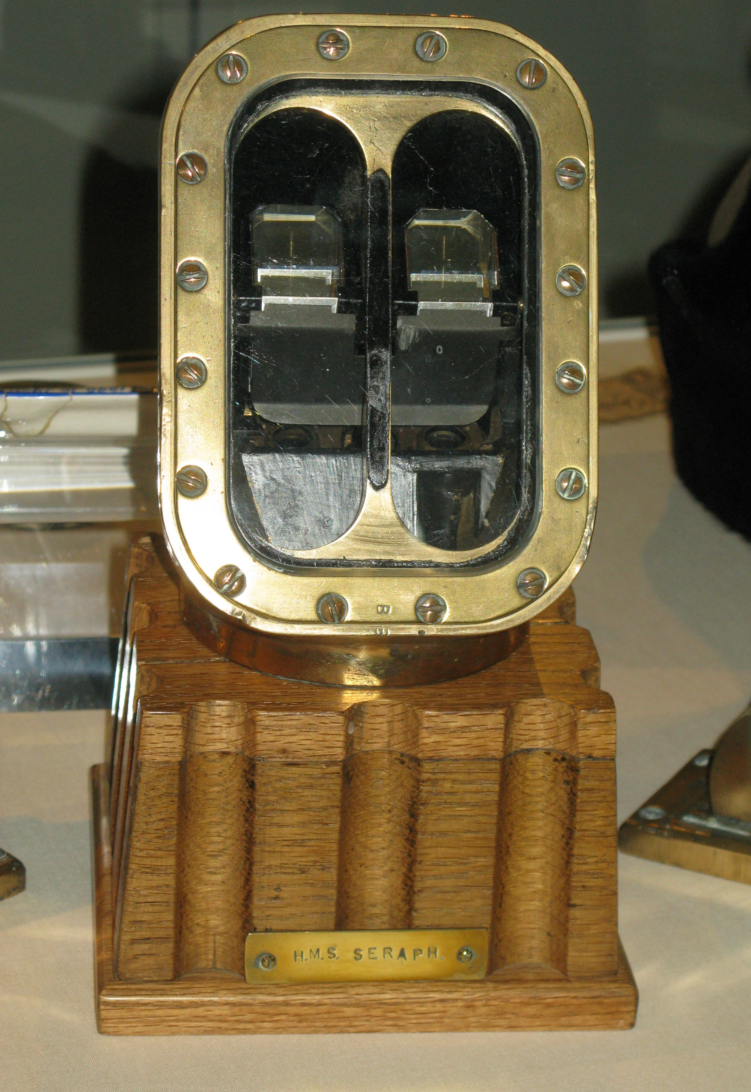 Photo of the head of the periscope on HMS Seraph